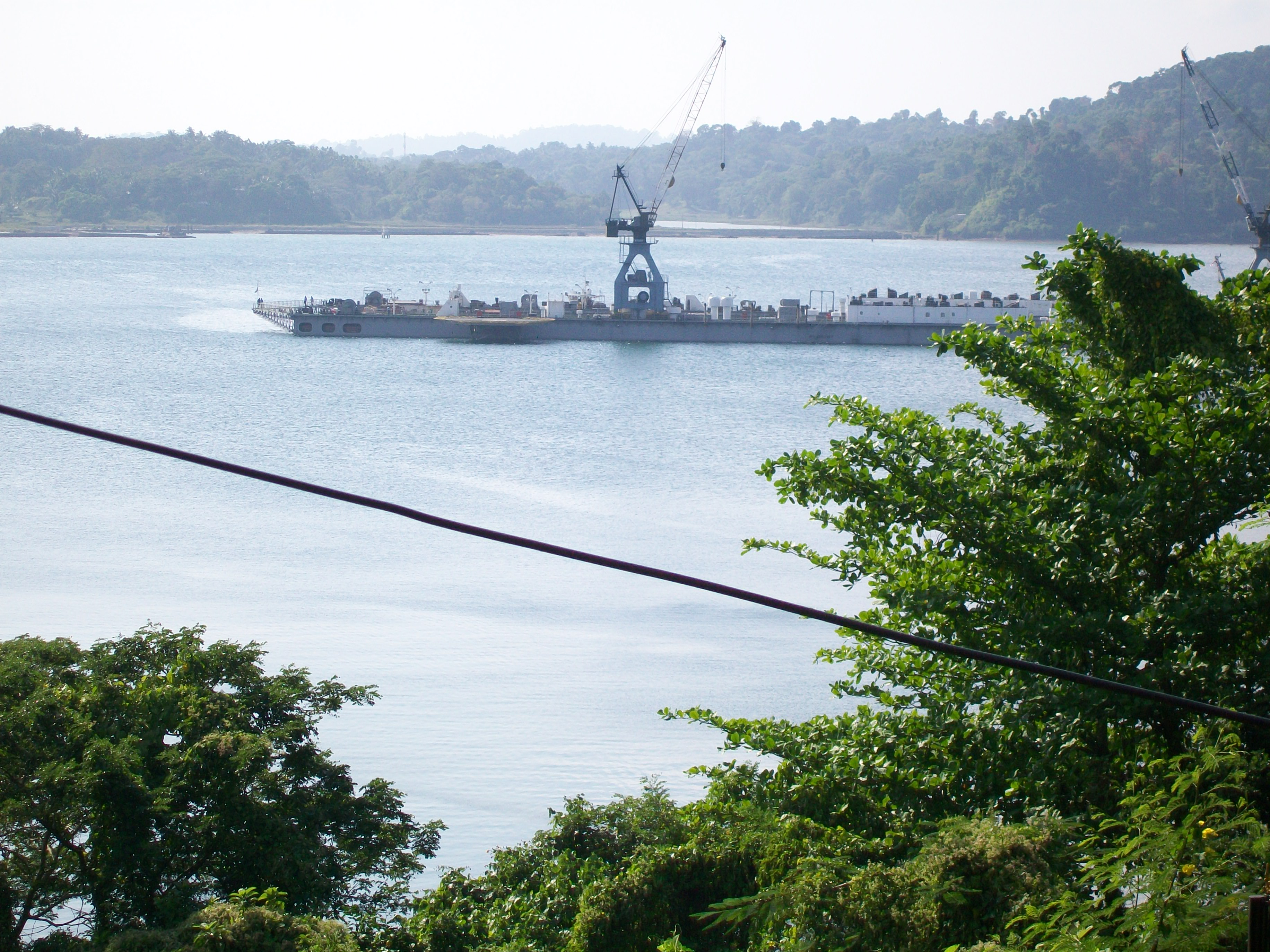 Indian Coast Guard jetty at Port Blair, Andaman Islands